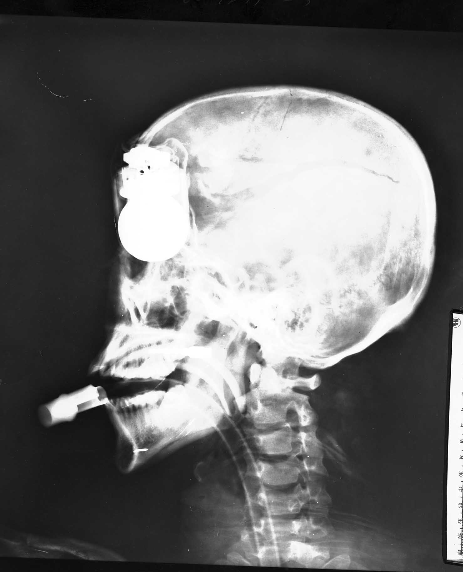 [Grenade embedded in forehead. Vietnam war]. Selected by Tom and Mike.